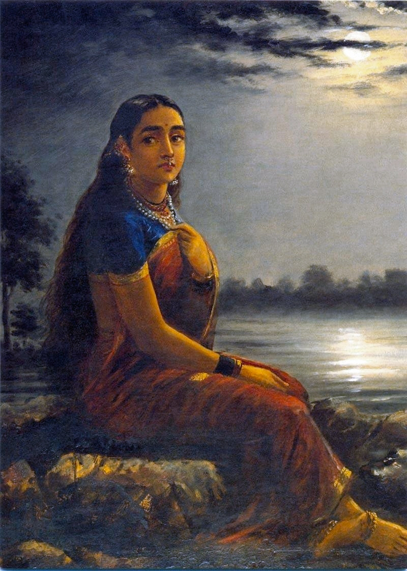 A lady sitting alone in the moon light. A classic painting with extraordinary light effects. Female figure in the picture sometimes interprets as a Yakshi also.